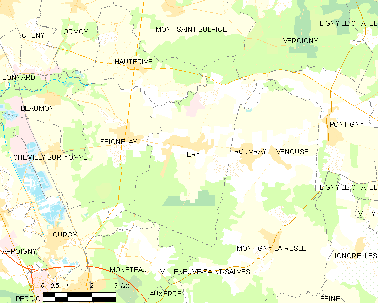 Map of French municipality Héry